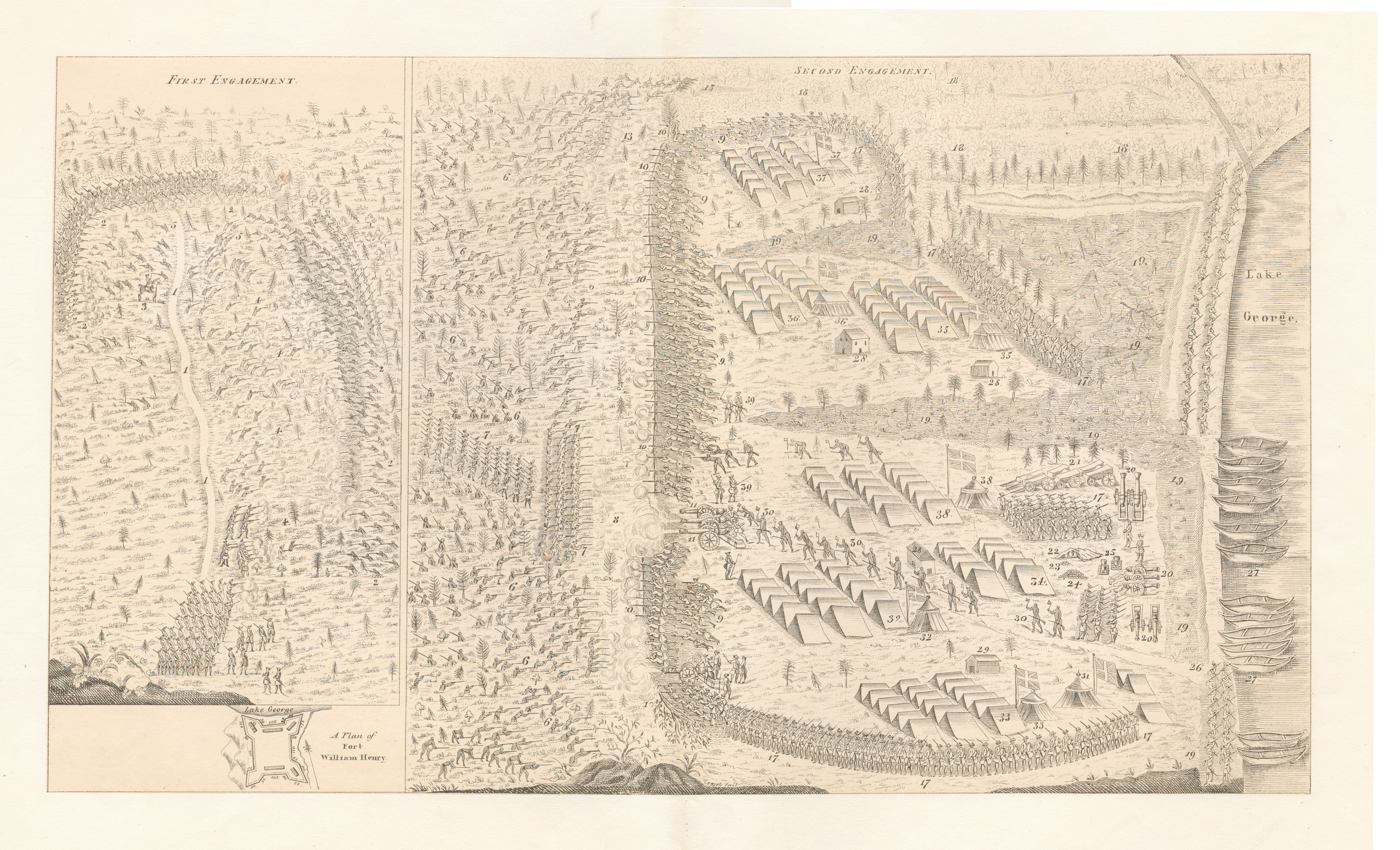 EM2338 After T. Jefferey's engraving of Samuel Blodget's Prospective plan of the battle near Lake George, on the eighth day of September, 1755.